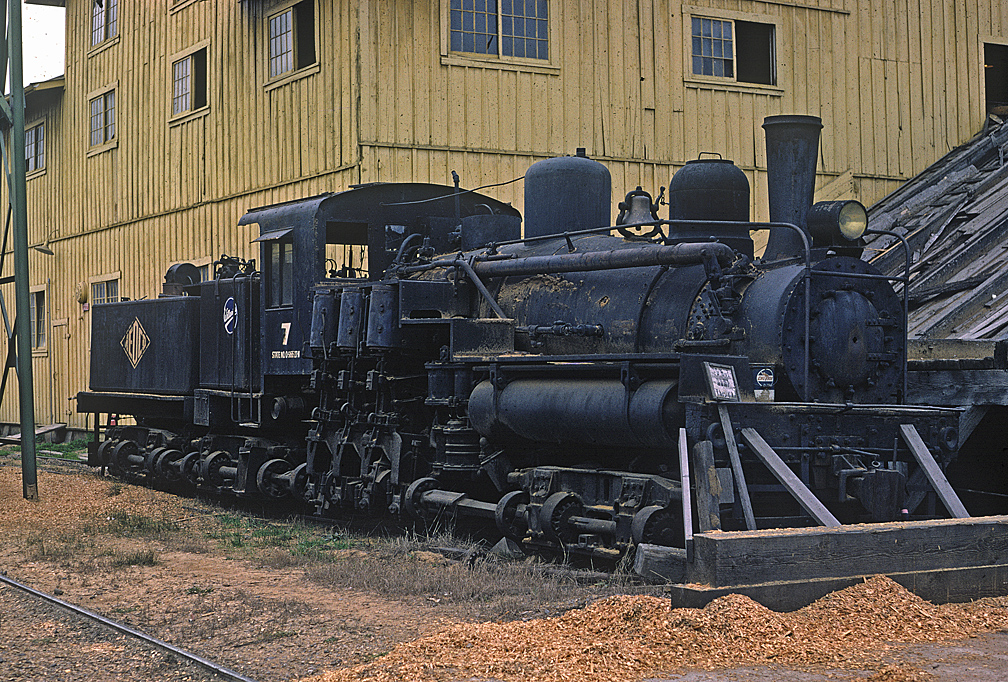 April 1964, Medco Willamette #7 was still at the millsite In Medford although long out of service. This locomotive would later go to Railroad Park (a private facility) in Dunsmuir, California, where it remains today.